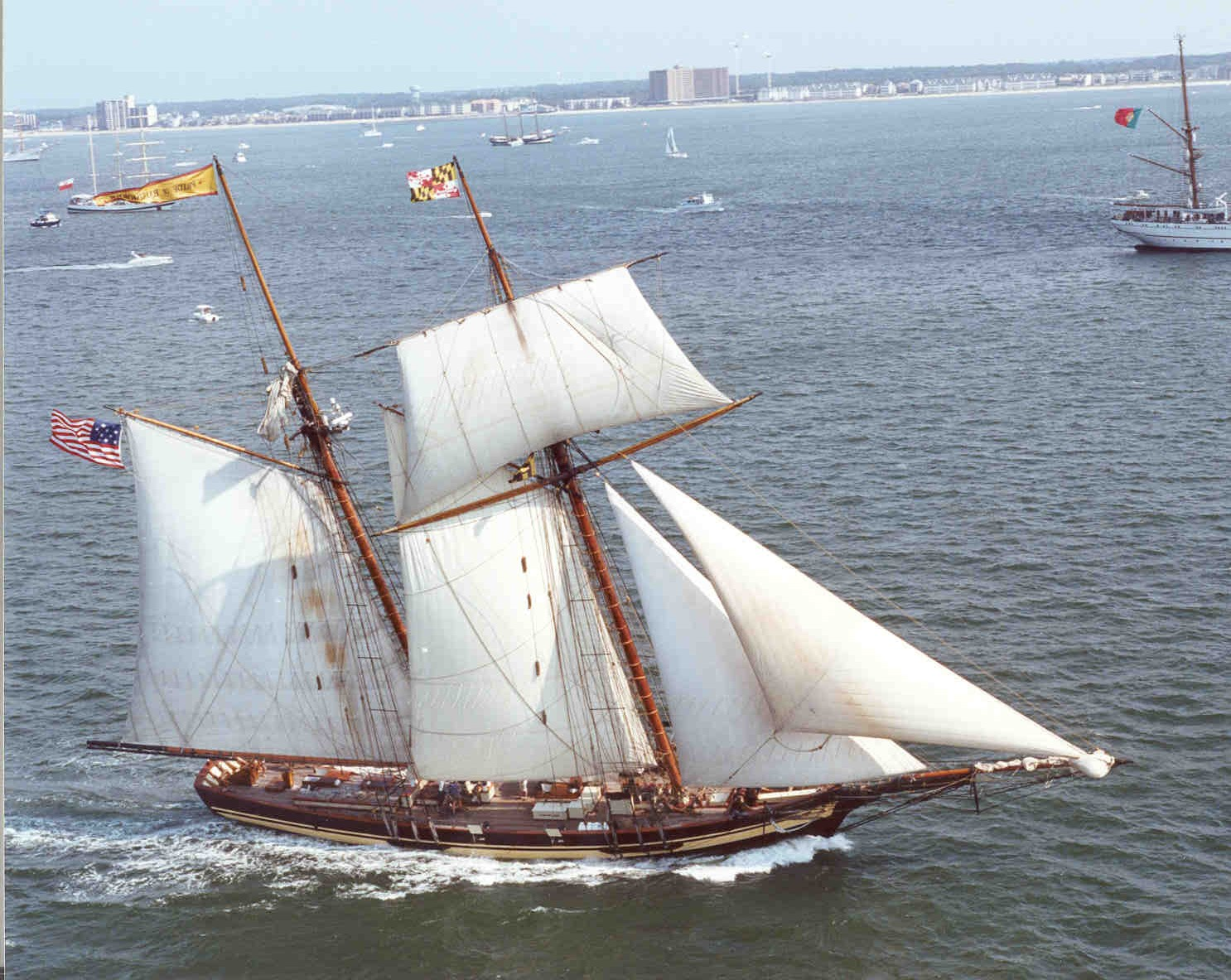 Pride of Baltimore II at OpSail 2000